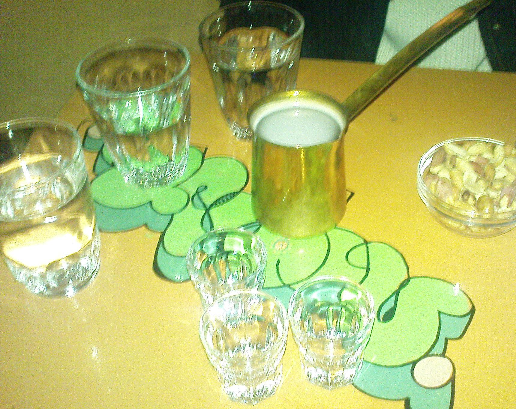 Rakomelo traditionally served and accompanied by nuts and water glasses. In a tavern in Psiri area, Athens.